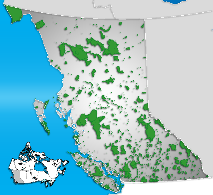 Location of British Columbia provicial and national parks